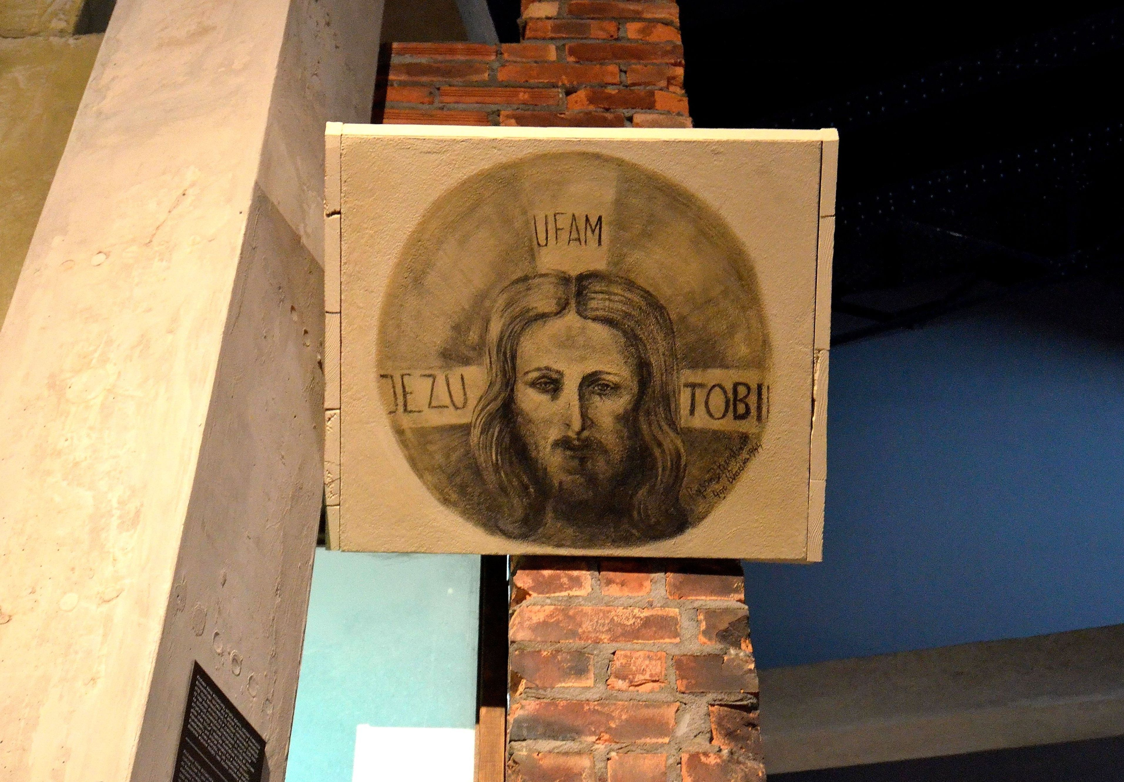 Copy of the drawing "Jesus, I trust in You" by Perec Willenberg originally painted at 60 Marszałkowska Street, displayed in the Warsaw Uprising Museum